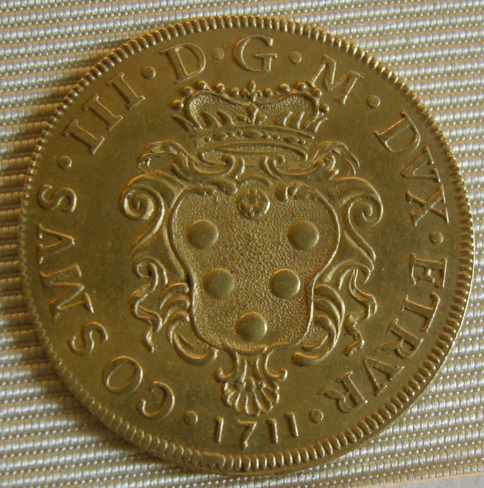 Cosimo III granduke of tuscany coins, 1670-1723, doppia 1711